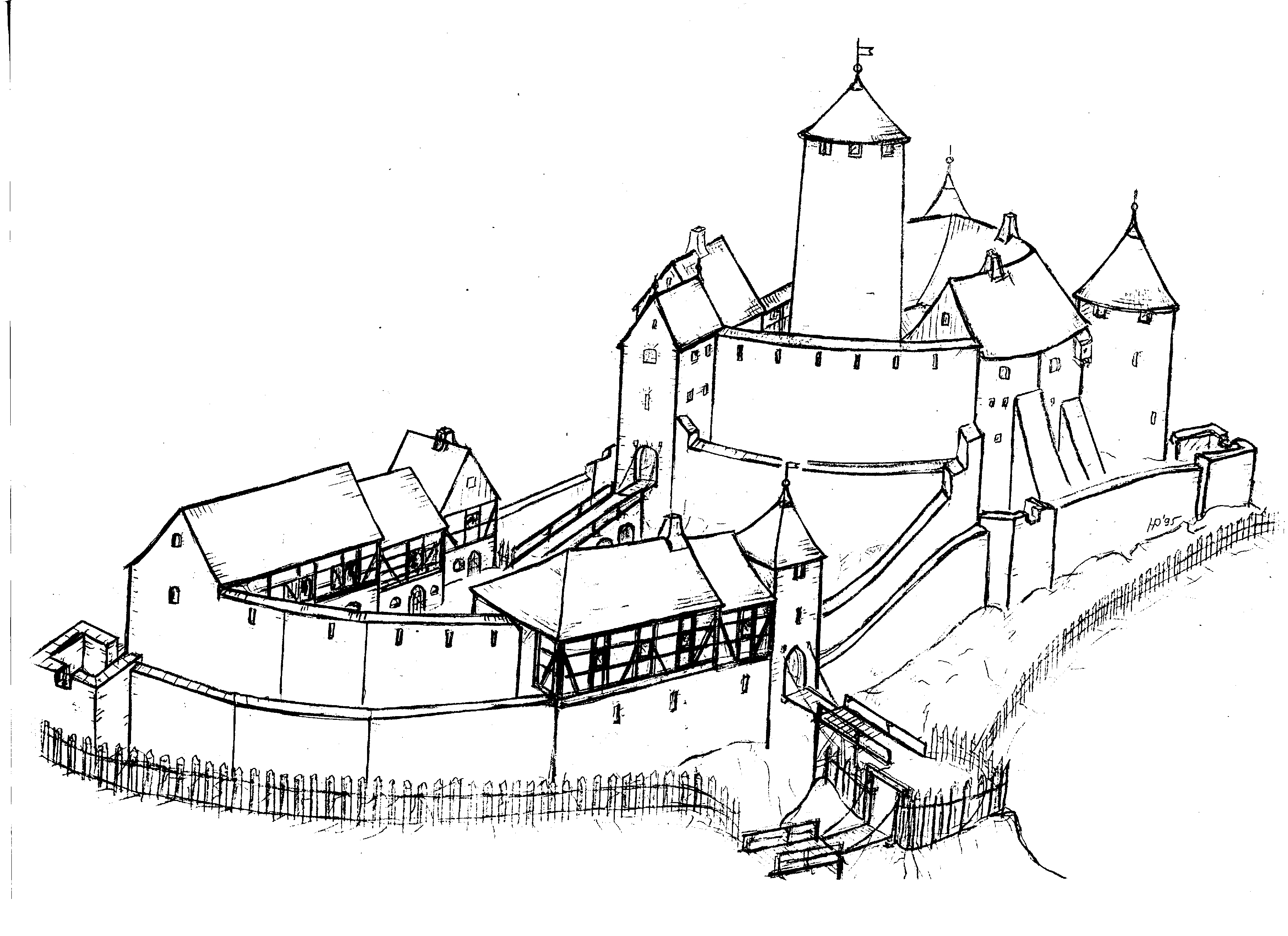 Castle Voigtsberg in 17century